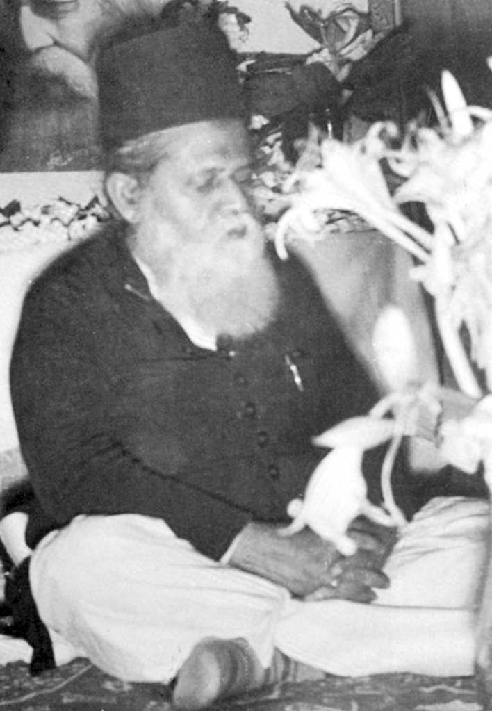 Muhammad Shahidullah , popularly known as Dr. Shahidullah (born July 10, 1885 — died July 3, 1969) was a famous Bengali educationist, writer and linguist.